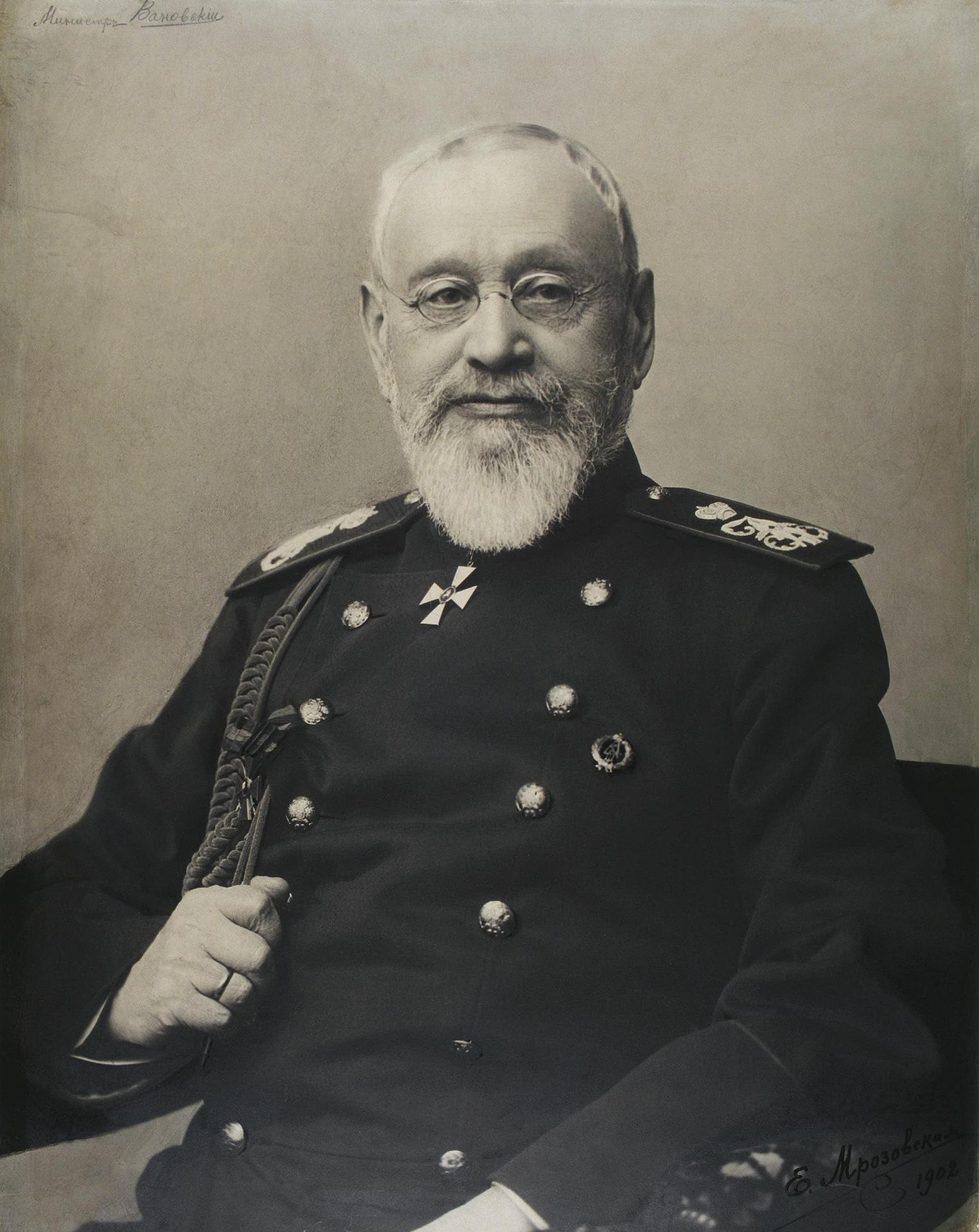 Portrait of Pyotr Vannovsky, General of the Infantry (1883), General Adjutant (1878), Minister of War (1881-1898) and Minister of National Education (1901-1902) of the Russian Empire. Photographer: Mrozowsky, Helene. Photograph, platinotype, with Indian ink, watercolour and lacquer. Russia, 1902. Inv. no. ERFT-27041.